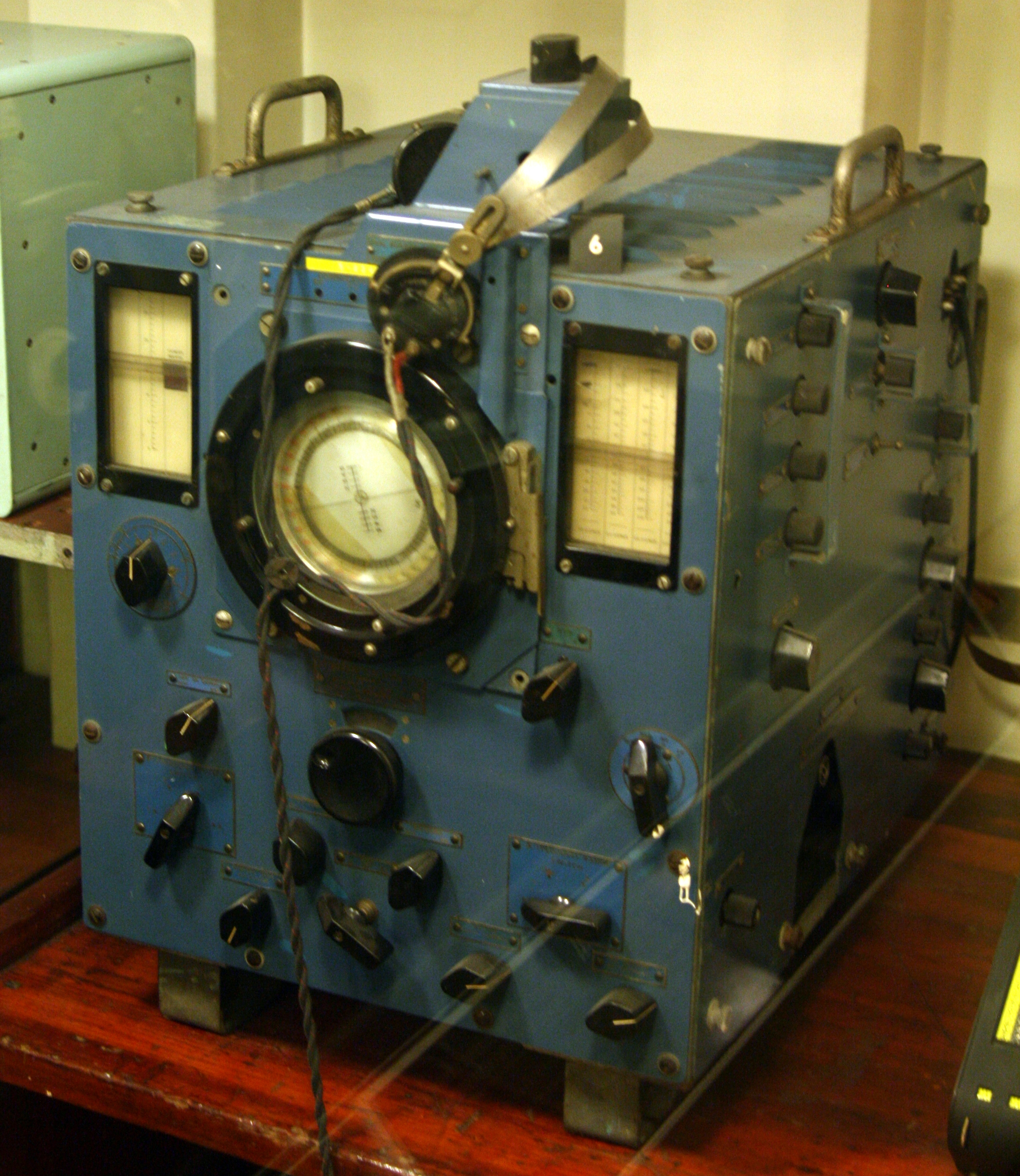 "Huff Duff" on HMS Belfast, ie high-frequency direction-finding receiver, to locate enemy radio signals.